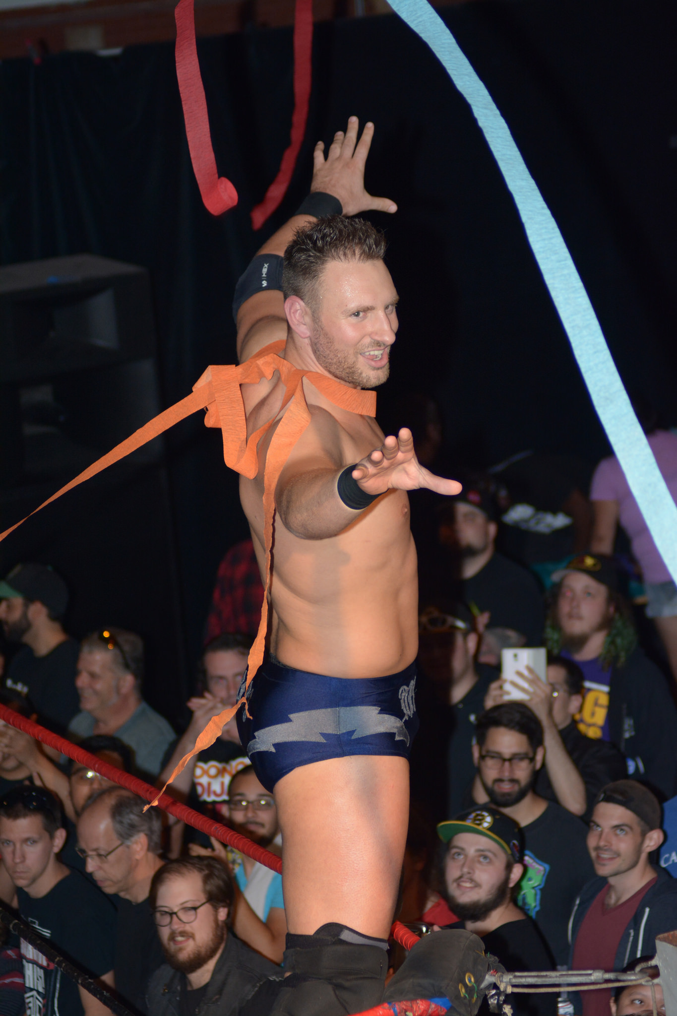 Streamers thrown as the crowd cheers Donovan Dijak at a 2015 Beyond Wrestling event in Somerville MA